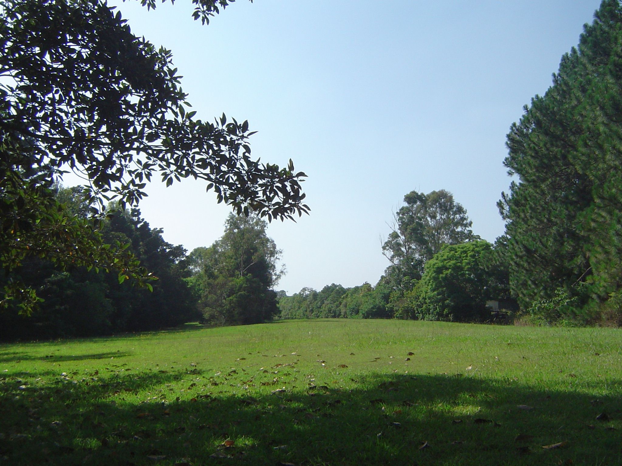 Photo of Henry Jordan Park, Waterford West, Logan City, Queensland, Australia.